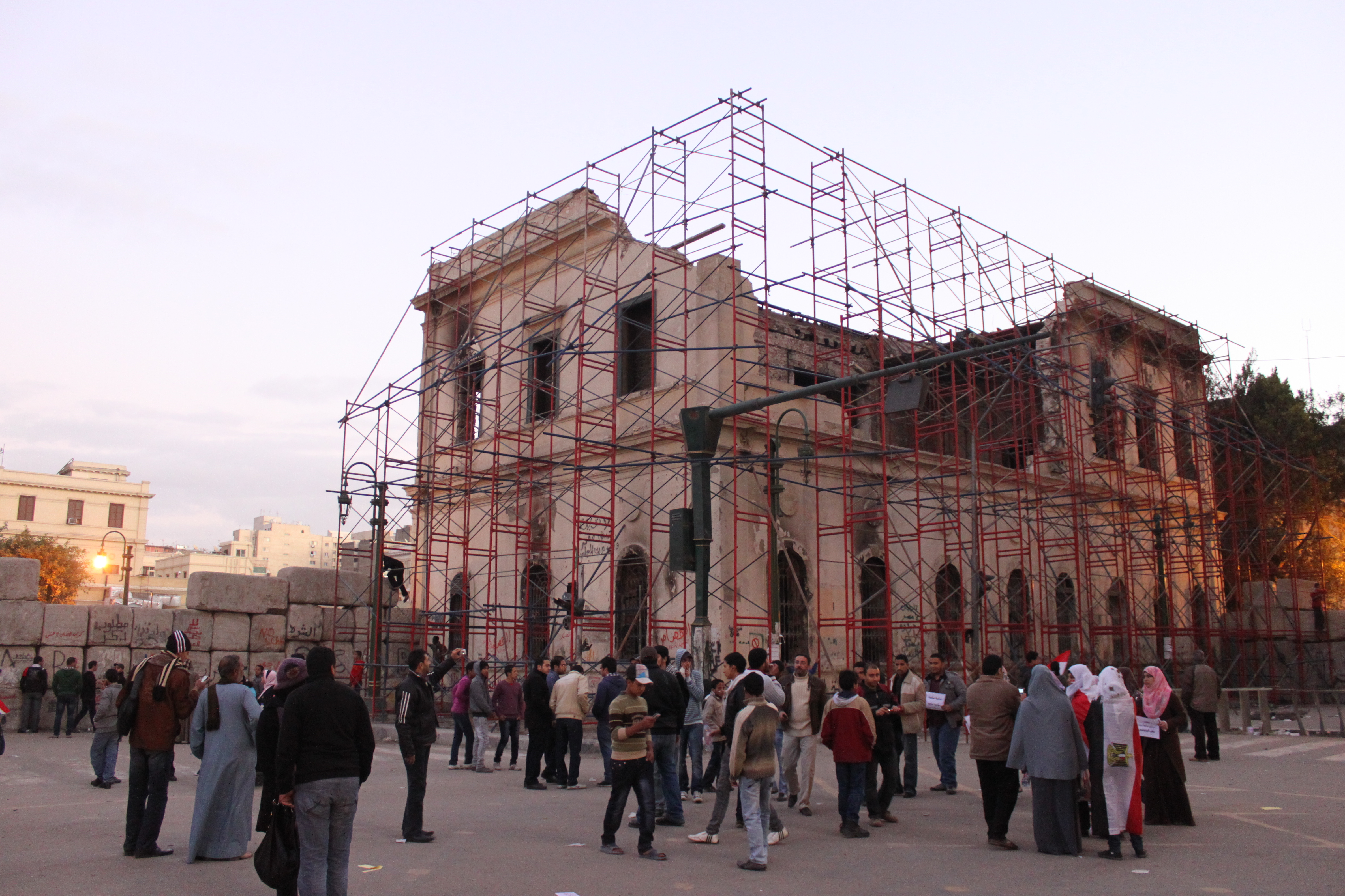 Institut d'Égypte, Academy of Egypt, founded by Napoleon in Cairo